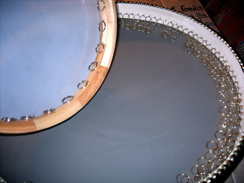 A Pair of Dafs